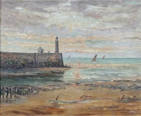 The Lighthouse